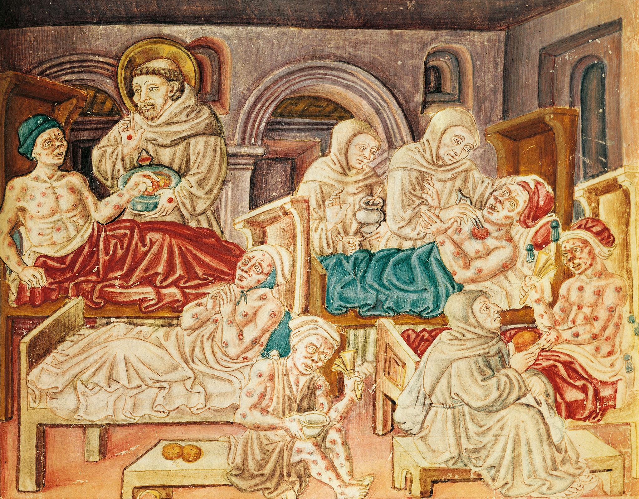 Franciscan monks treat victims of the plague in the 15th century. Warmer temperatures in Central Asia, which made animals like marmots and rats more active, contributed to the spread of the disease.